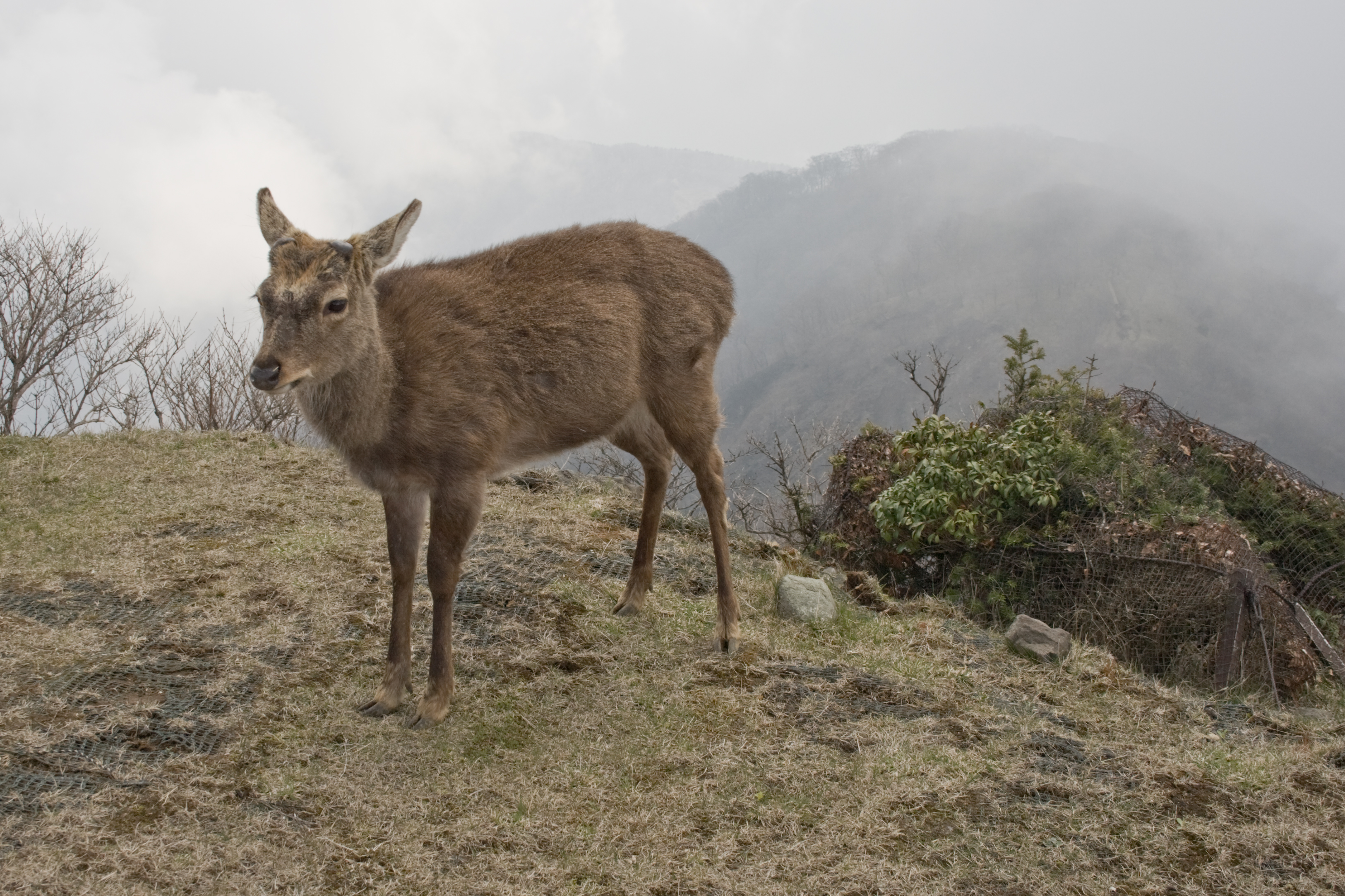 Sika Deer